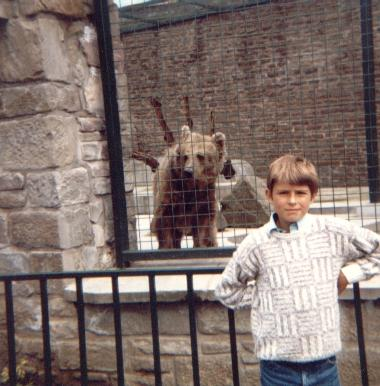 "Jeremy" the bear at Camperdown Park in the 1980s